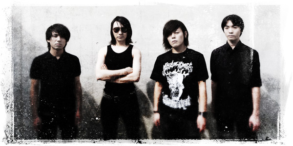 member